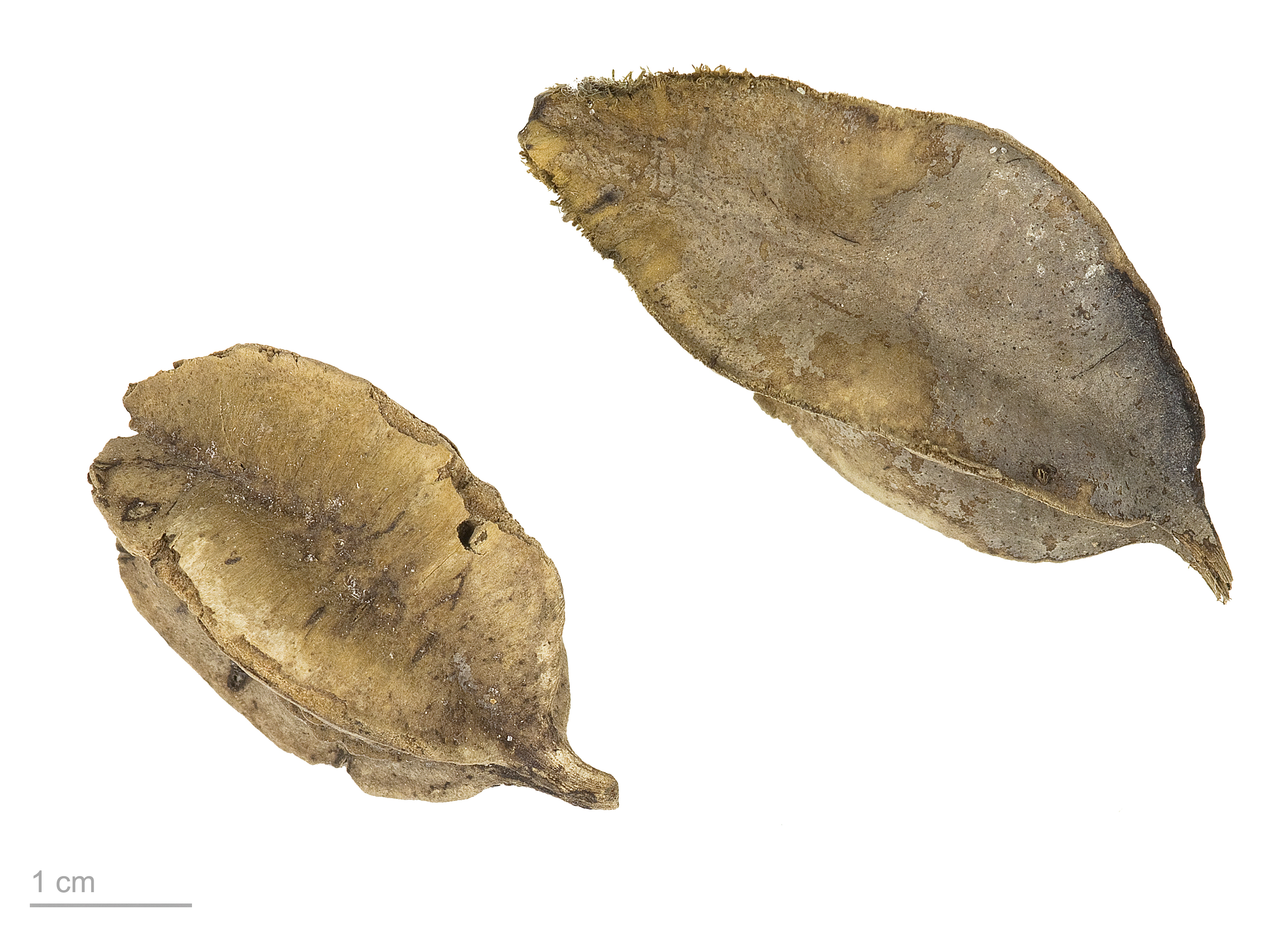 Combretum acutum, fruits